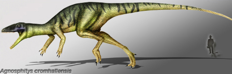 Agnosphitys, Speculative